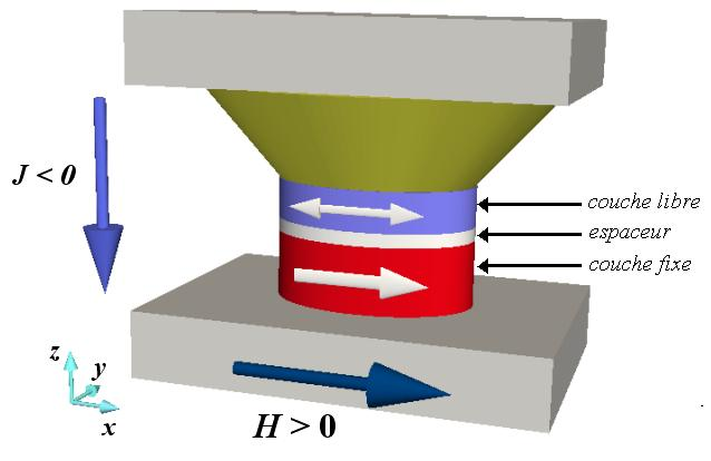 Signs convention for applied magnetic fields, injected currents and magnetization direction in magnetic nano-pillars